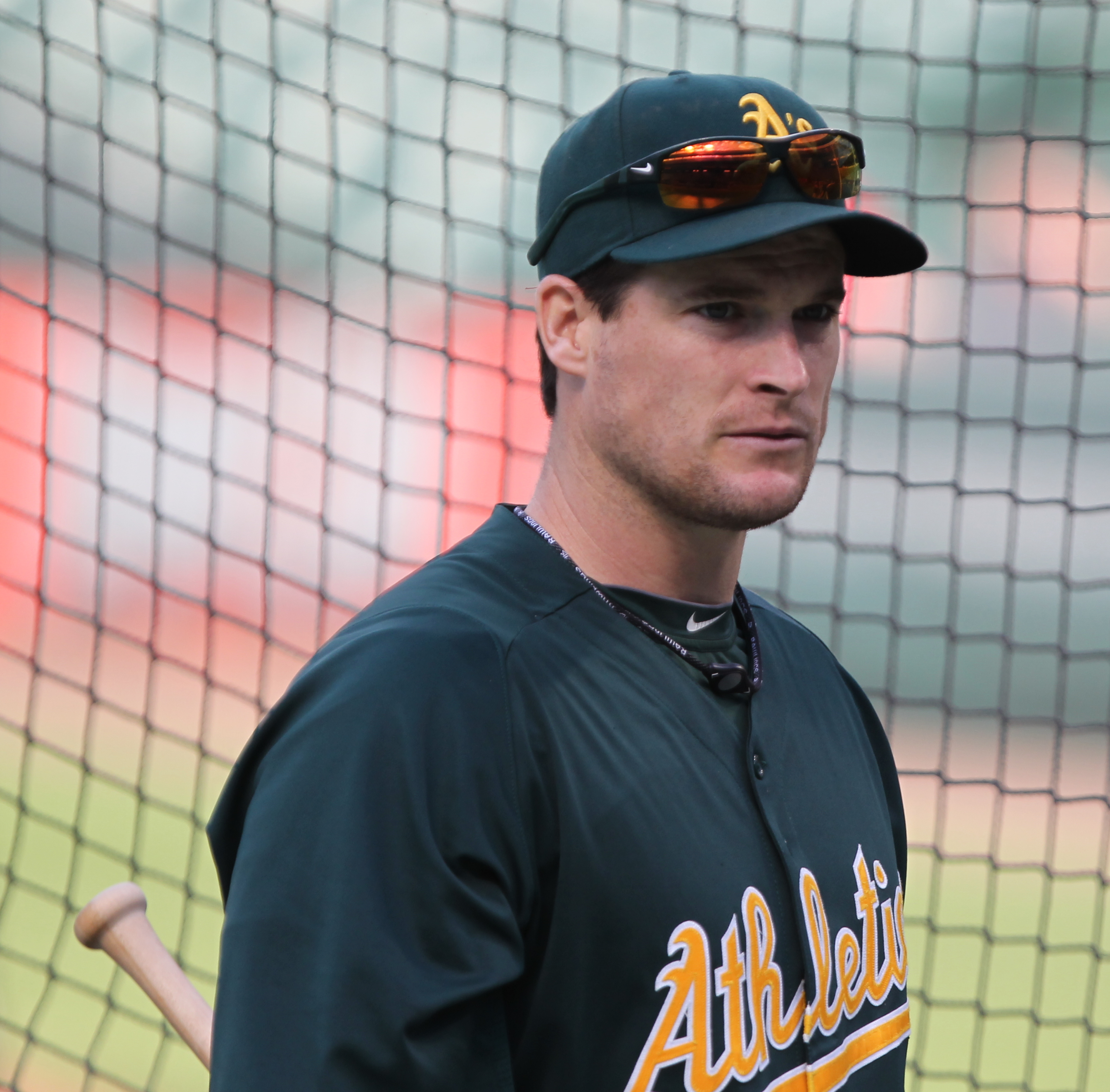 Josh Willingham